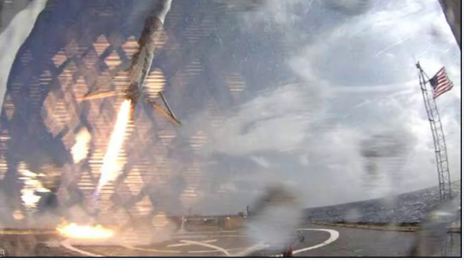 Falcon 9 first stage approaches Just Read the Instructions in the Atlantic Ocean after successfully launching CRS-6 to the International Space Station.